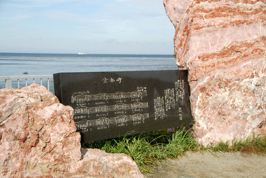 稚內宗谷岬的《宗谷岬》音樂碑The "Music Stone" of the song "Cape Soya" in Cape Soya, Hokkaido